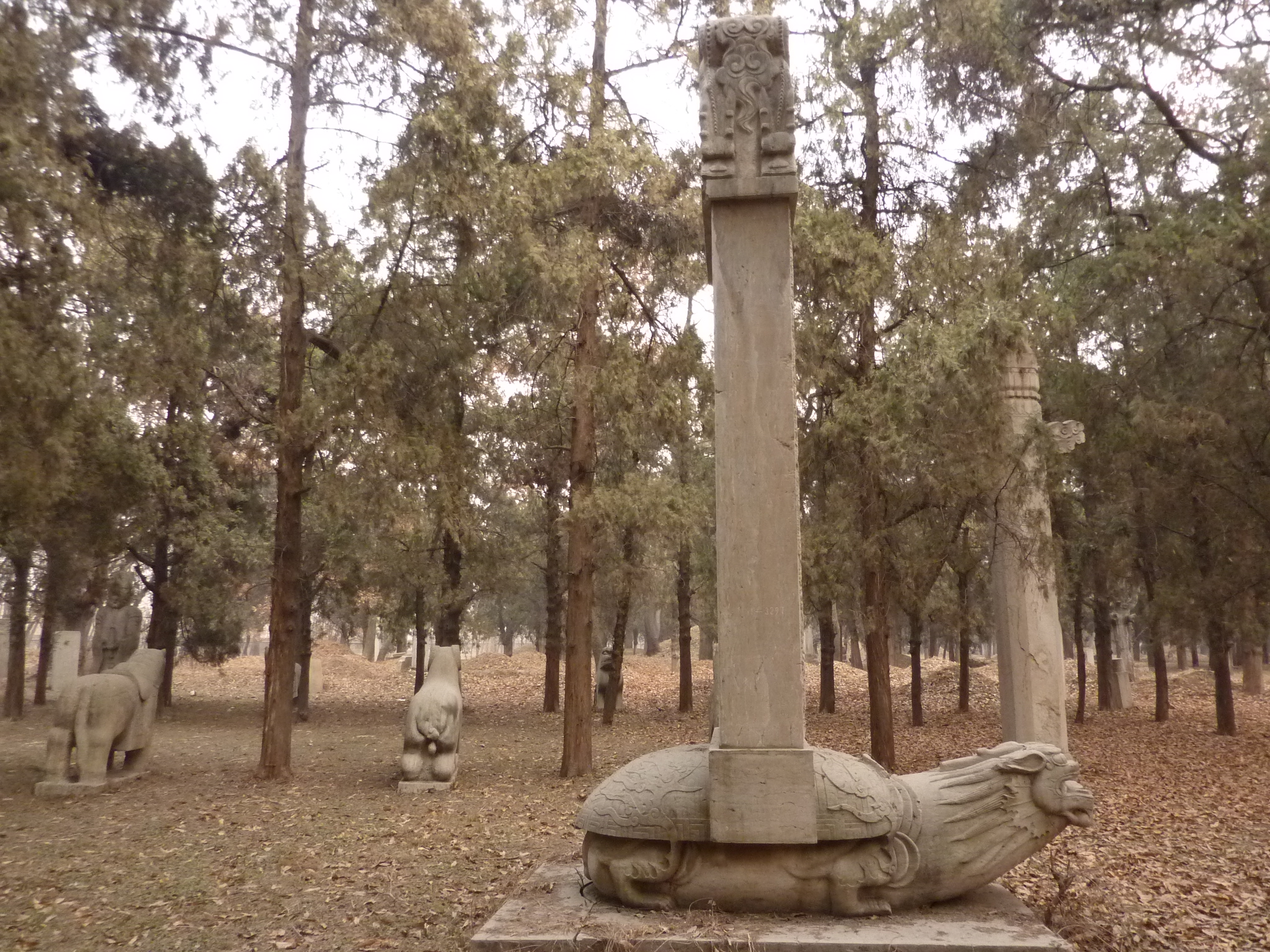 The tomb complex of Kong Fanhao, in the north-eastern part of the Cemetery of Confucius. (A few minutes' walk to the east from the tomb of Kong Yuxu). Includes a pair of large bixi dragon turtles whose faces have been damaged, a pair of huabiao pillars, a pair each of cats, rams, and horses, a memorial arch, a pair of human statues, and the stele and a ding pot in front of the grave mound, dated 7 Guangxu (1881). As usual, the spirit way runs north to south, with the turtles and steles facing south, and the other animals and men facing each other across the path.